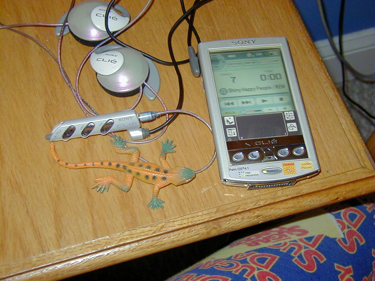 A picture of Sony CLIE N760C, this time showing off its audio capabilities. the remote control and earphones are both present.